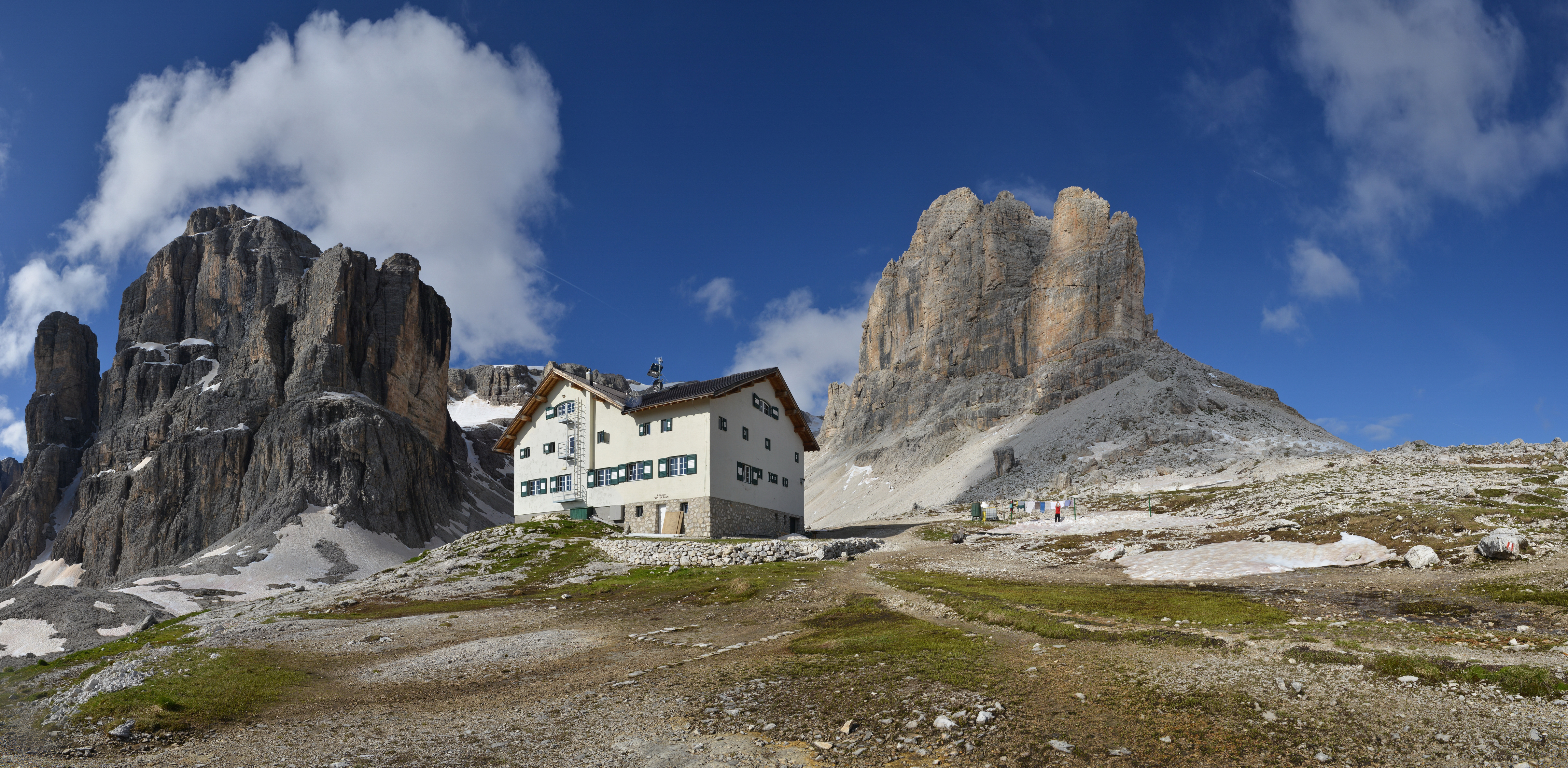 The Pisciadùhütte, 2587 m in the Sella group. It can be reached from Passo Gardena (2121 m) by the steep, wire-secured ropes Kar "Val Setu 'in 1.5 hours. The last few meters of the red-white-red trail Nr.666 require some climbing skill.